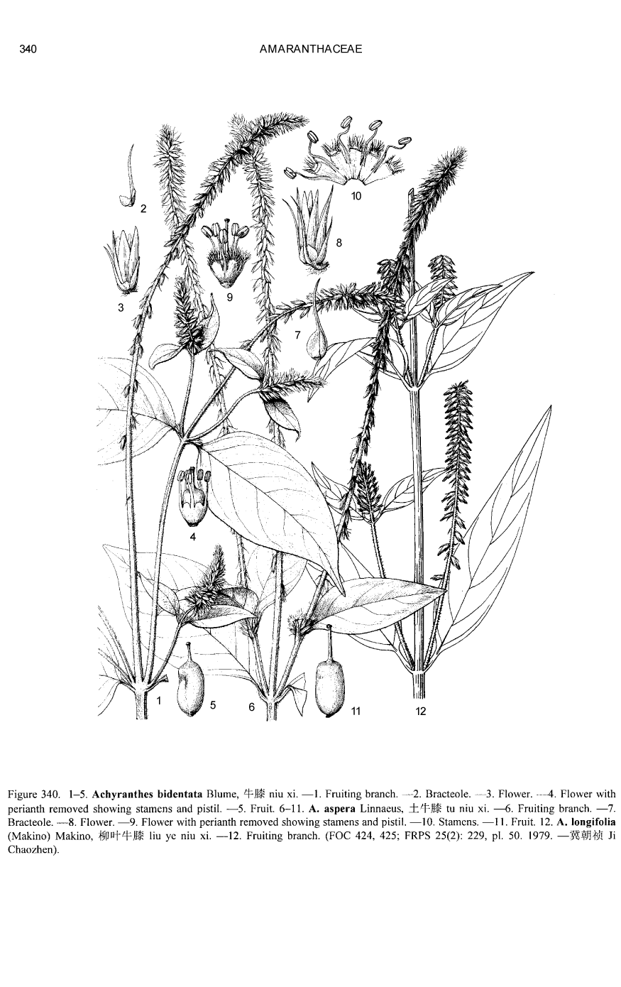 Achyranthes, line drawings, MBG-FOC Amaranthaceae Fig. 340. 1-5 Achyranthes bidentata Blume, -1. Fruiting branch -2. Bracteole -3. Flower -4. Flower with perianth removed showing stamens and pistil -5. Fruit 6-11 A. aspera Linnaeus, -6. Fruiting branch -7. Bracteole -8. Flower -9. Flower with perianth removed showing stamens and pistil -10. Stamens -11. Fruit 12. A. longifolia (Makino) Makino, -12. Fruiting branch. (FOC 424, 425; FRPS 25(2) 229, pl.50 - 1979. Ji Chaozhen) Note that Plants of the world online: Achyranthes longifolia asserts that A. longifolia is a synonym of A. bidentata.